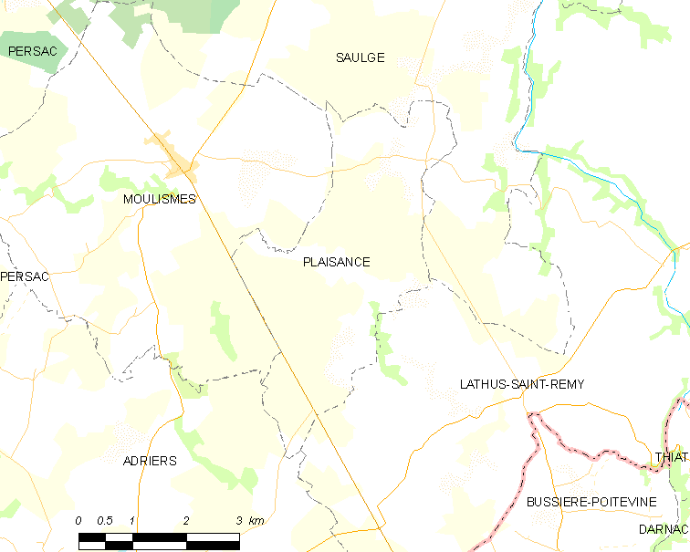 Map of French municipality Plaisance